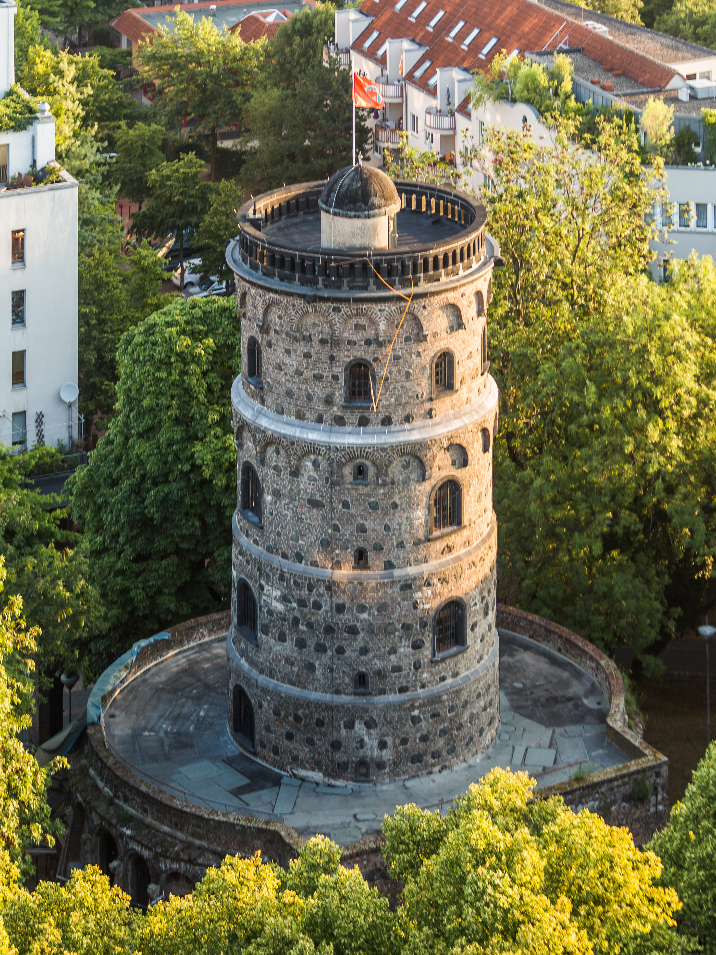 Aerial view of Bottmühle in Cologne